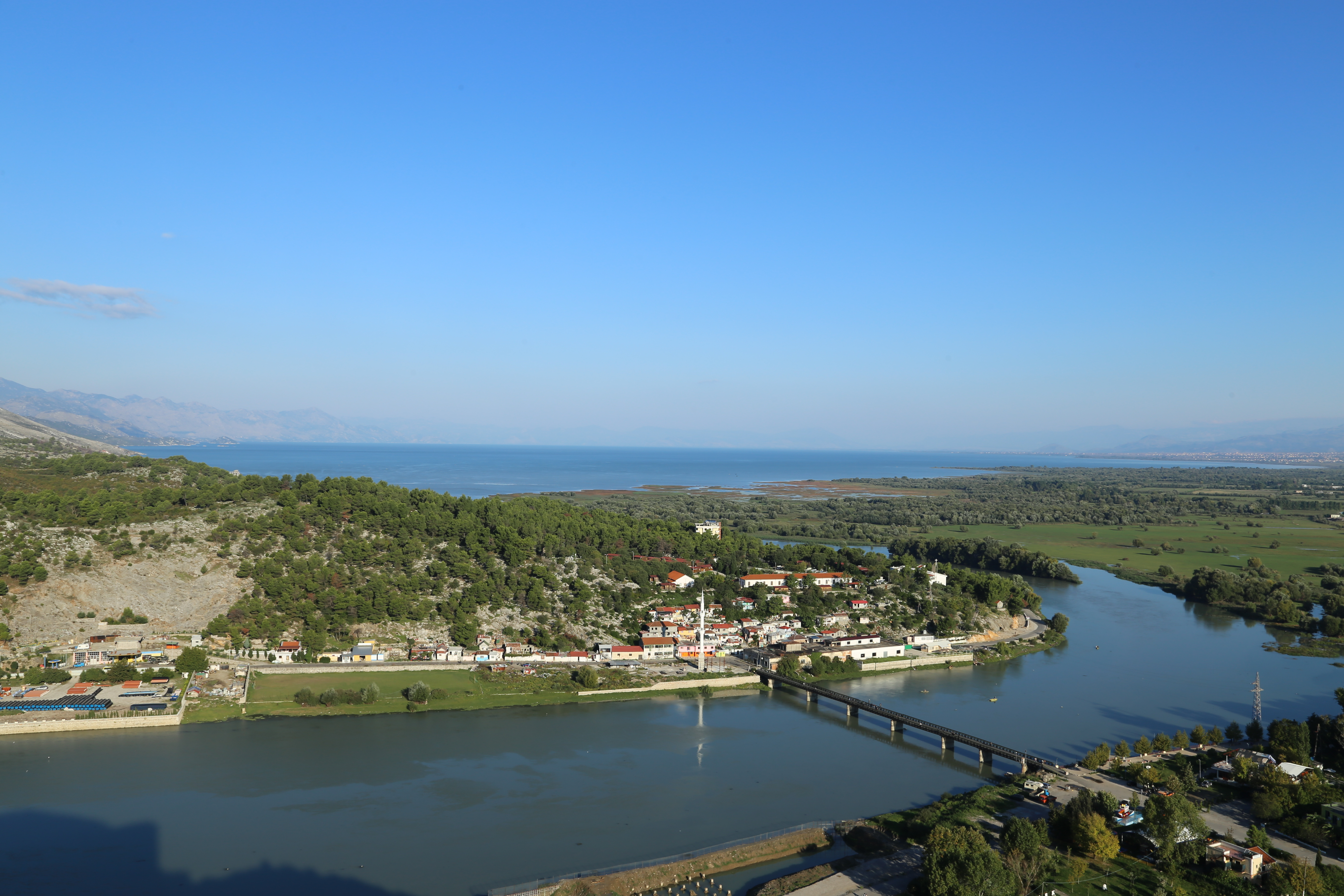 View from Rozafa Castle in Albania